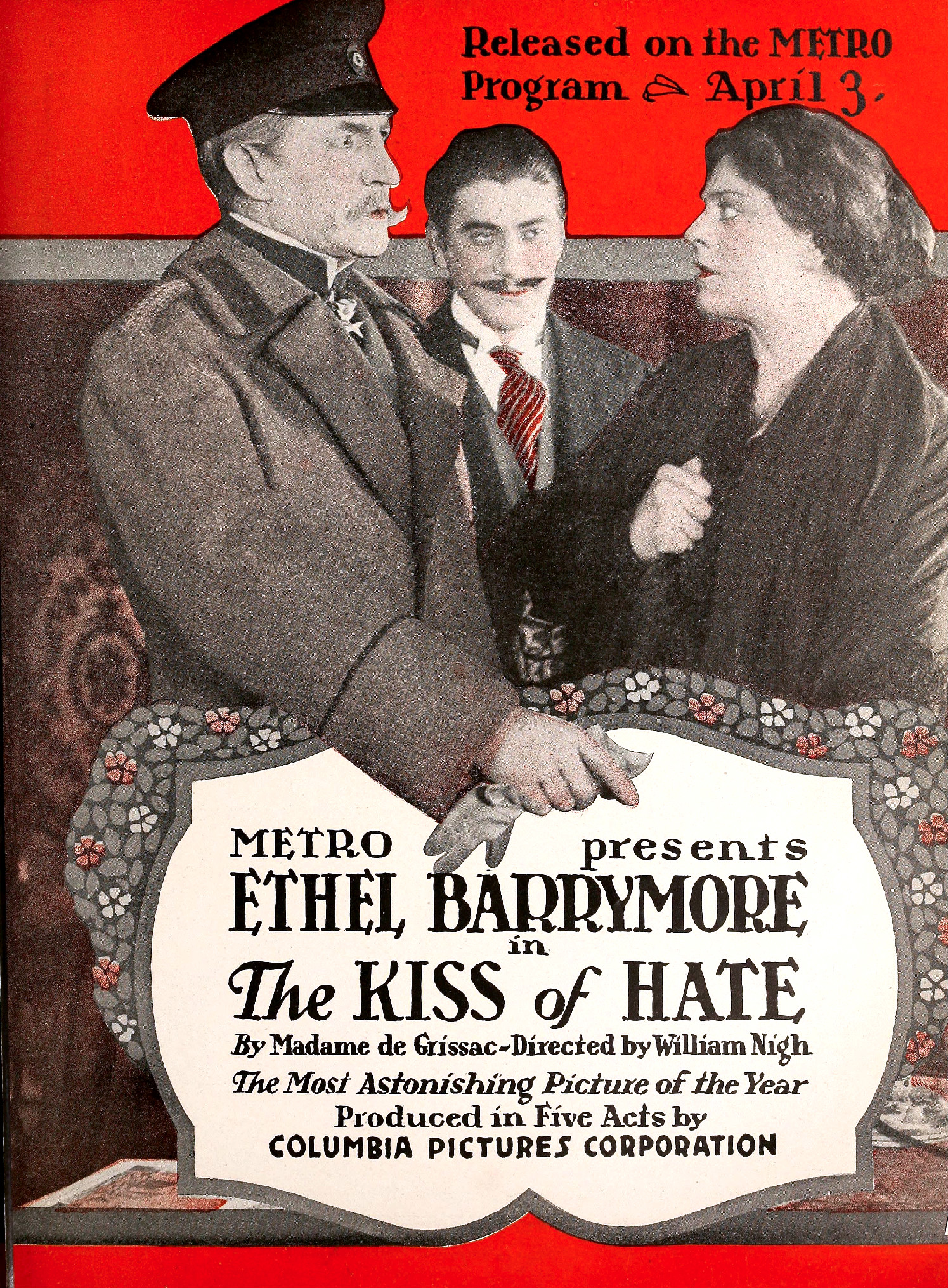 Ad for the 1916 film The Kiss of Hate from Motion Picture World.